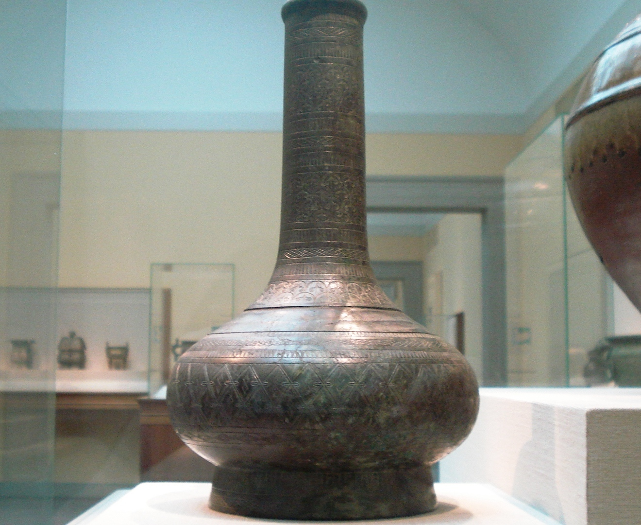 A Chinese bronze gaming vessel (tou hu) with incised decorations, from the Western Han Dynasty, c. 150–50 BC. This vessel was used during festivities when guests would attempt to throw darts down its narrow neck. This bronze is unusual amongst others of its era, in that its designs and its incised decorations imitate ash-glazed Chinese stoneware vessels.